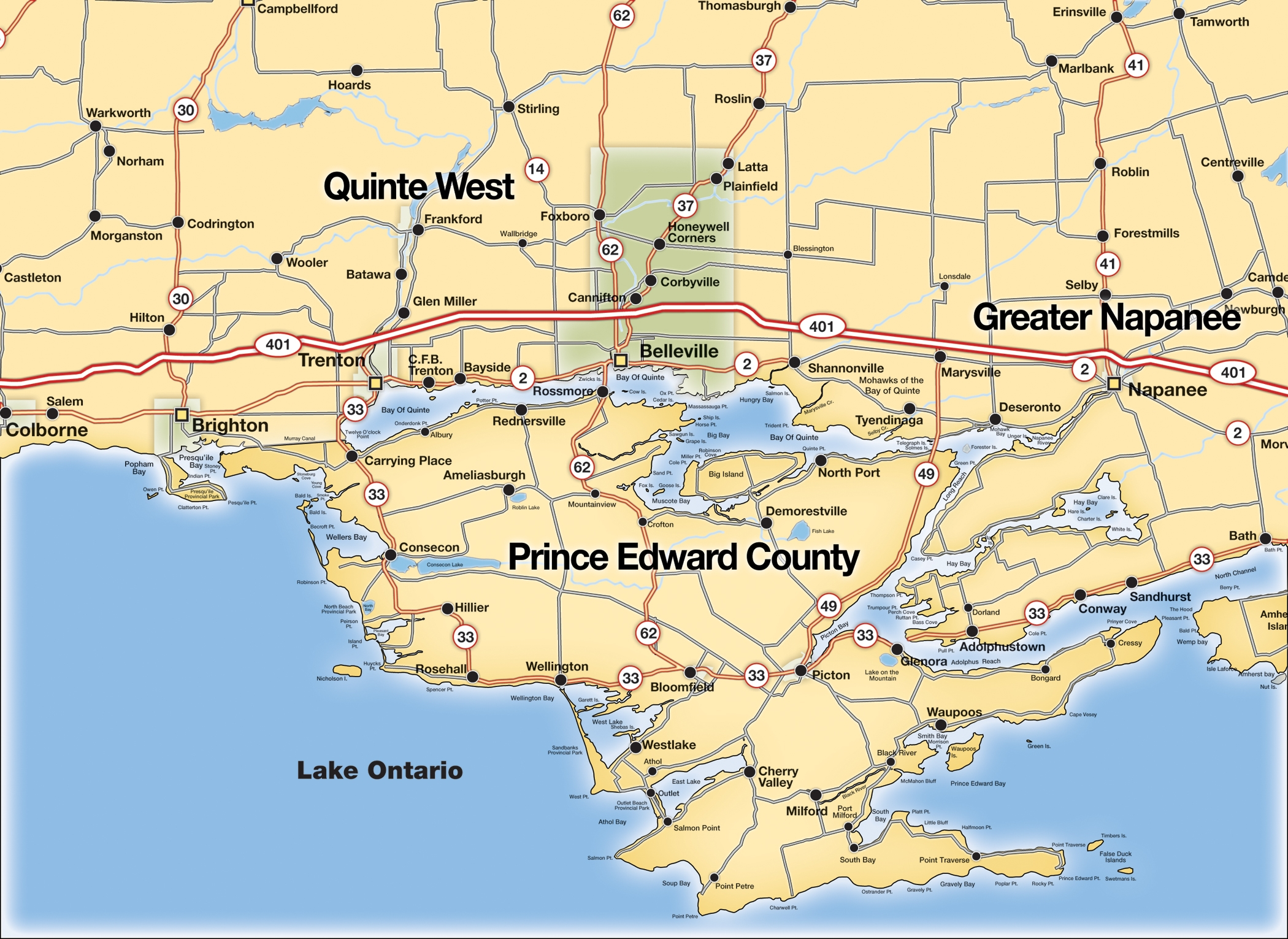 Map of the Bay of Quinte Area, Ontario, Canada.